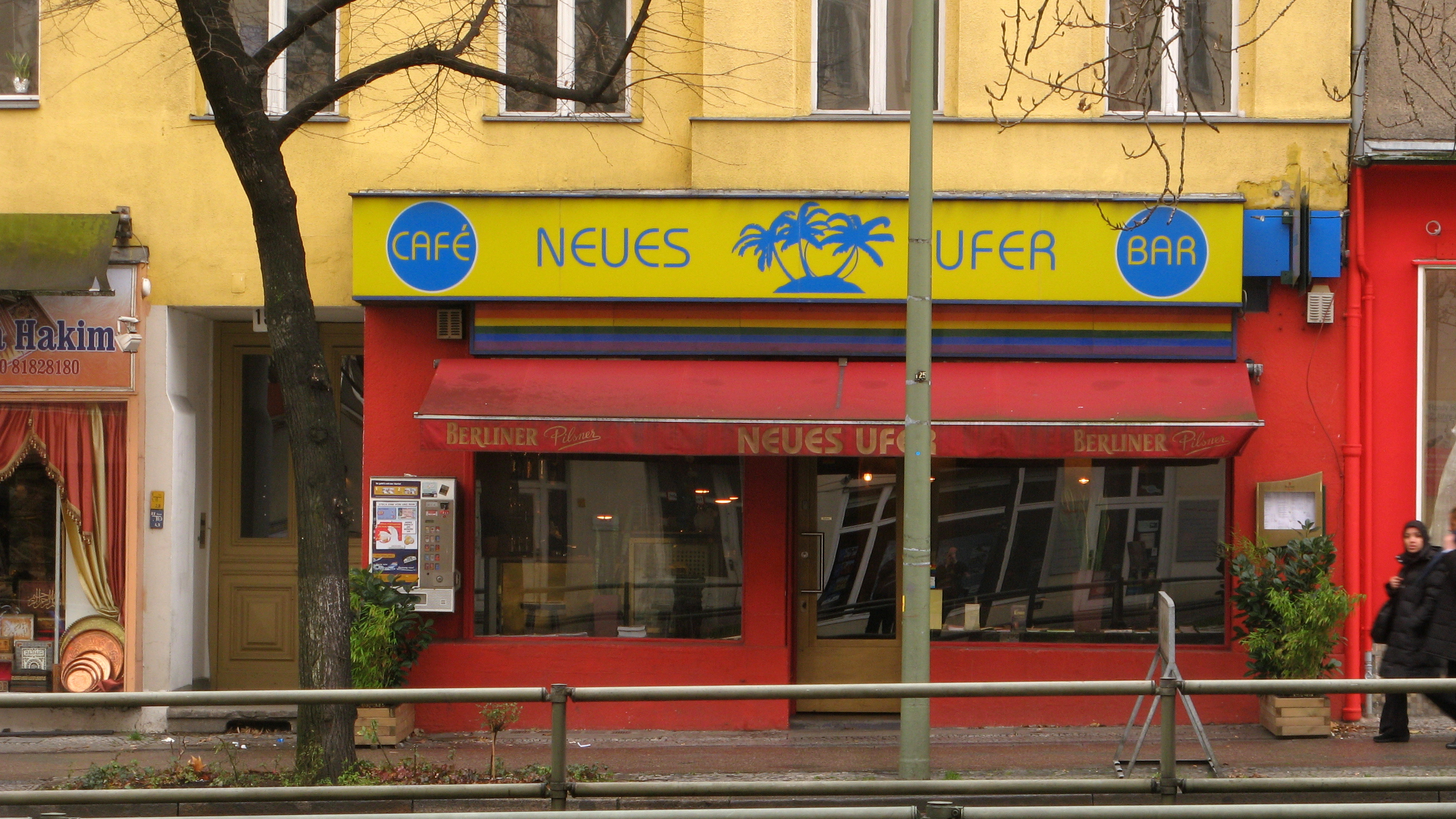 Neues Ufer Kneipe, Berlin, Germany